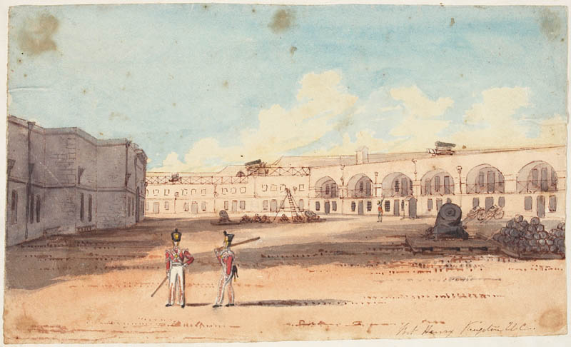 Fort Henry, Kingston. Watercolour. Interior of Fort Henry, Kingston Ontario. Two soldiers, holding rifles, are standing in the foreground. To their right is a cannon and a stack of cannon balls. The artist, George St. Vincent Whitmore, was an engineer responsible for renovations to the fort for which he was rewarded with a plaque because he came in on time and under budget.